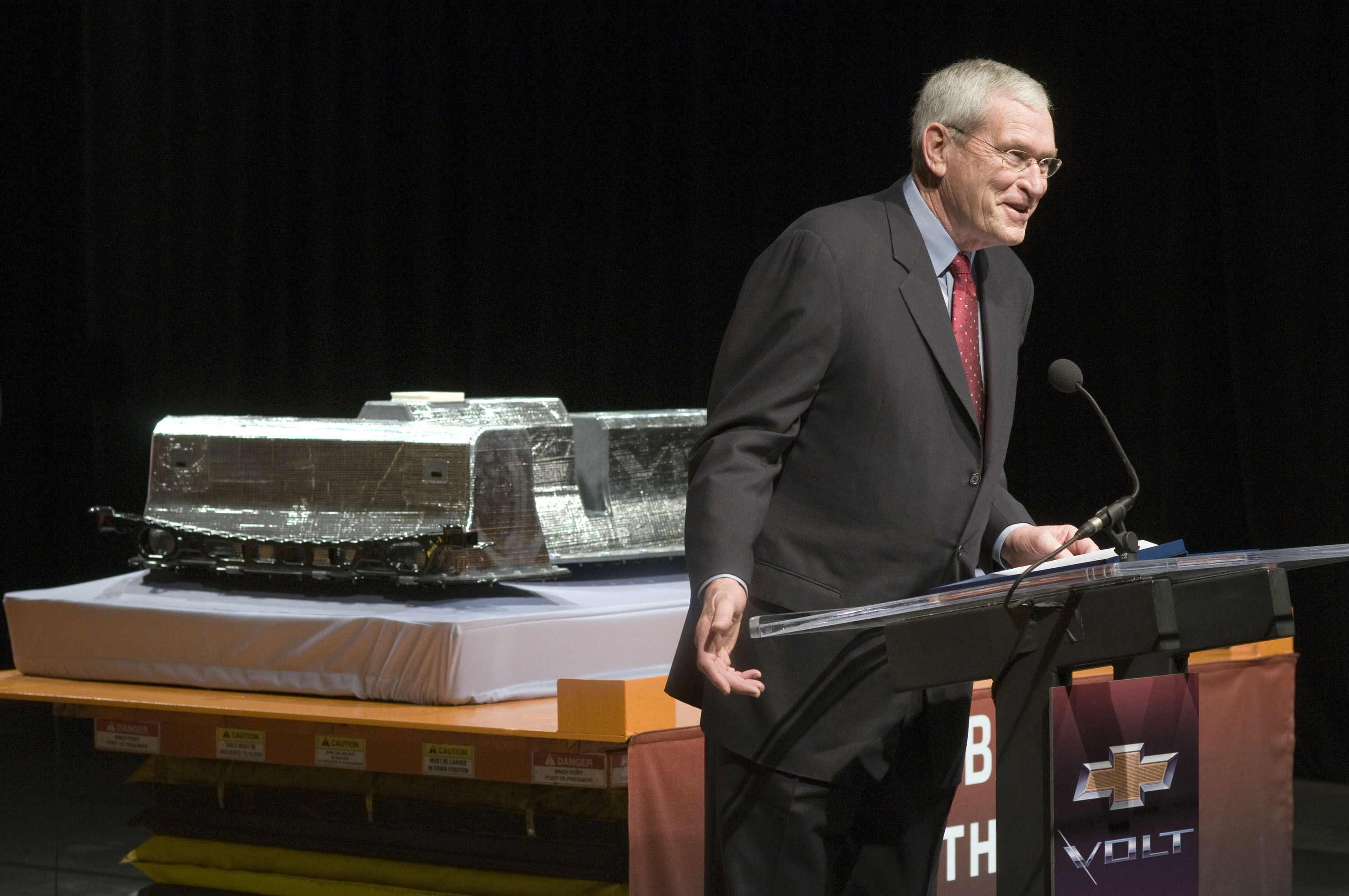 General Motors Chairman and CEO Ed Whitacre addresses the gathering after the first Chevrolet Volt battery came off the line at the GM Brownstown Battery plant in Brownstown Township, Michigan Thursday, January 7, 2010. The facility is the first lithium ion battery pack manufacturing plant in the U.S. operated by a major automaker. (Photo by Steve Fecht for General Motors)